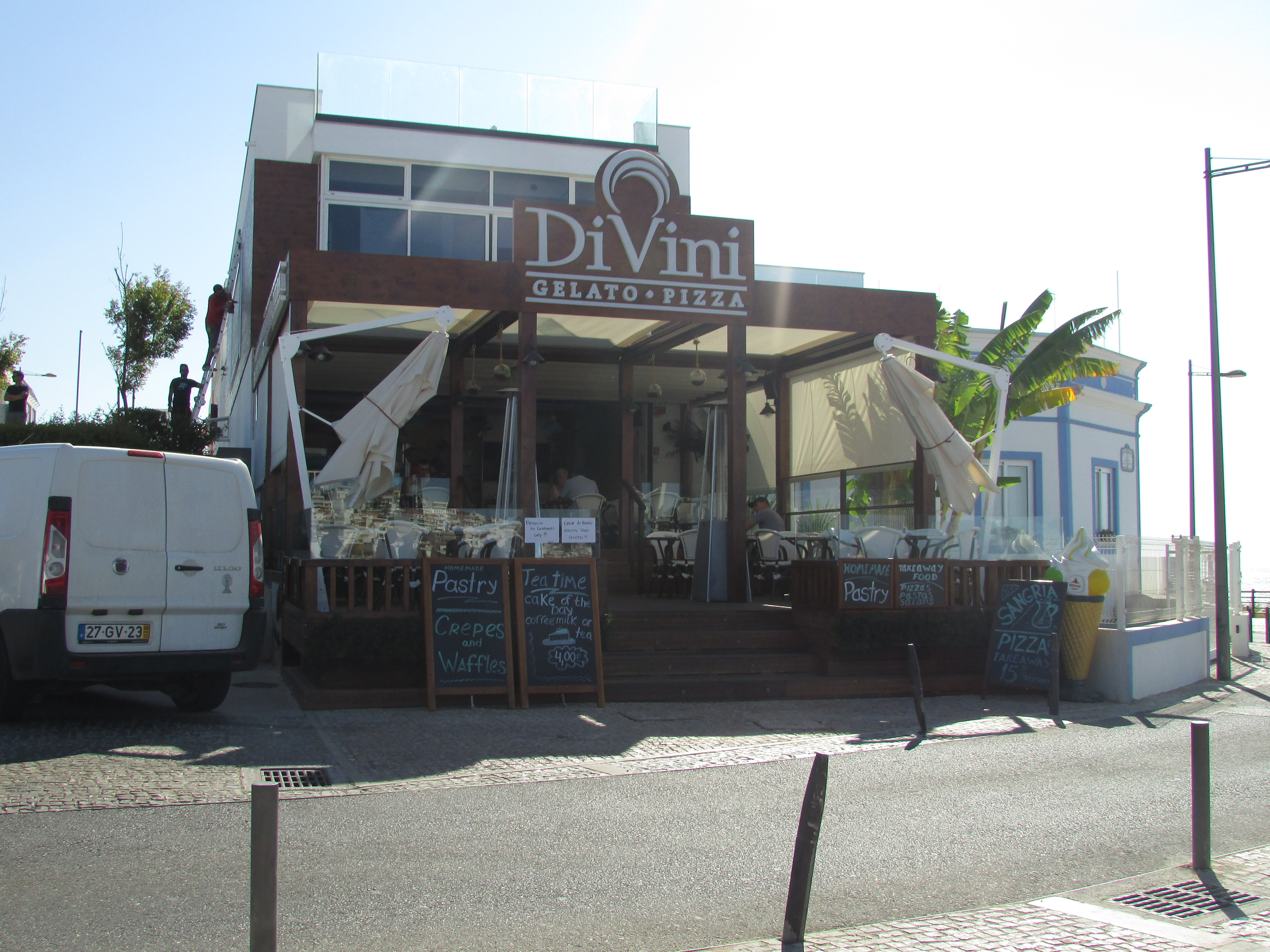 The 'Divini Gelato Pizza' restaurant is located on Rua Almirante Gago Coutinho within the city of Albufeira, Algarve, Portugal.